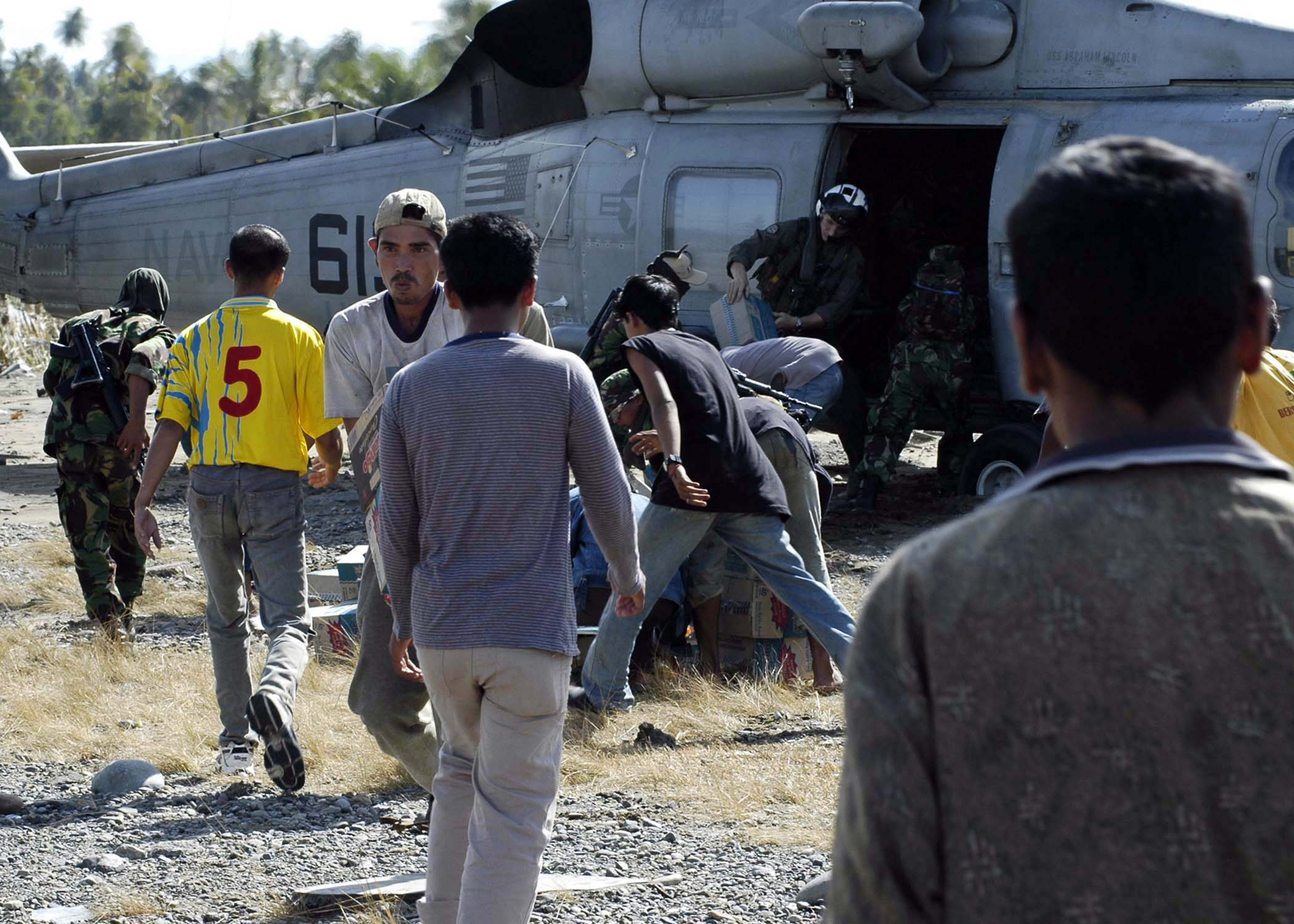 Aceh, Sumatra, Indonesia (Jan. 3, 2005) - An air crewman, assigned to the "Golden Falcons" of Helicopter Anti-Submarine Squadron Two (HS-2), unload food and water from a SH-60F Seahawk, in Aceh Jaya, Sumatra, Indonesia. Helicopters assigned to Carrier Air Wing Two (CVW-2) and Sailors from Abraham Lincoln are conducting humanitarian operations in the wake of the Tsunami that struck South East Asia. The Abraham Lincoln Carrier Strike Group is currently operating in the Indian Ocean off the waters of Indonesia and Thailand. U.S. Navy photo by Photographer's Mate Airman Jordon R. Beesley (RELEASED)